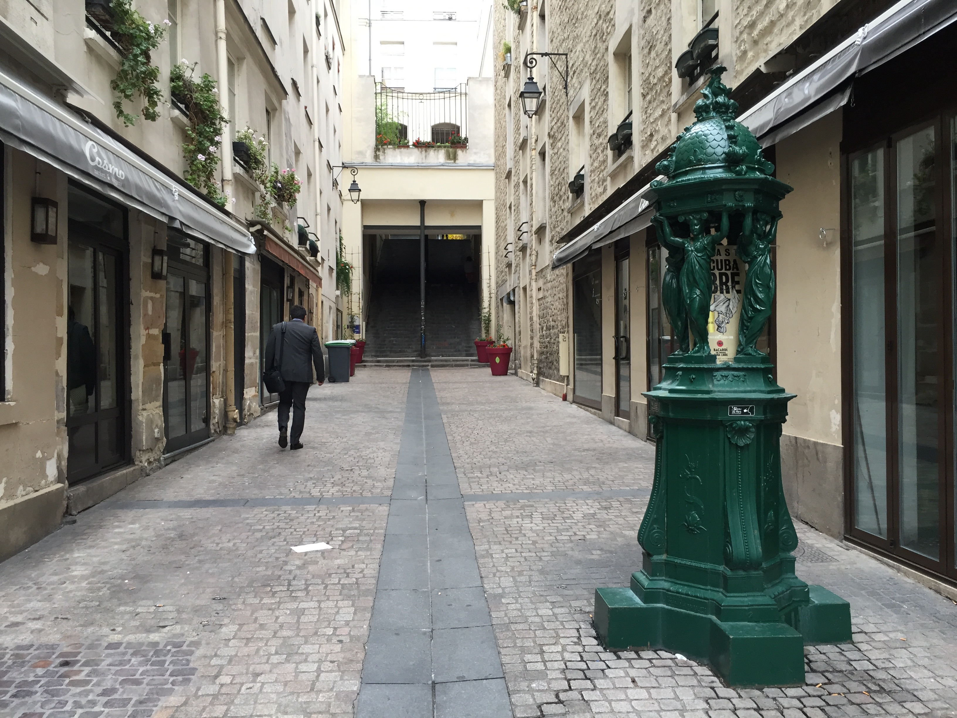 This image was uploaded as part of L'Été des villes 2015.